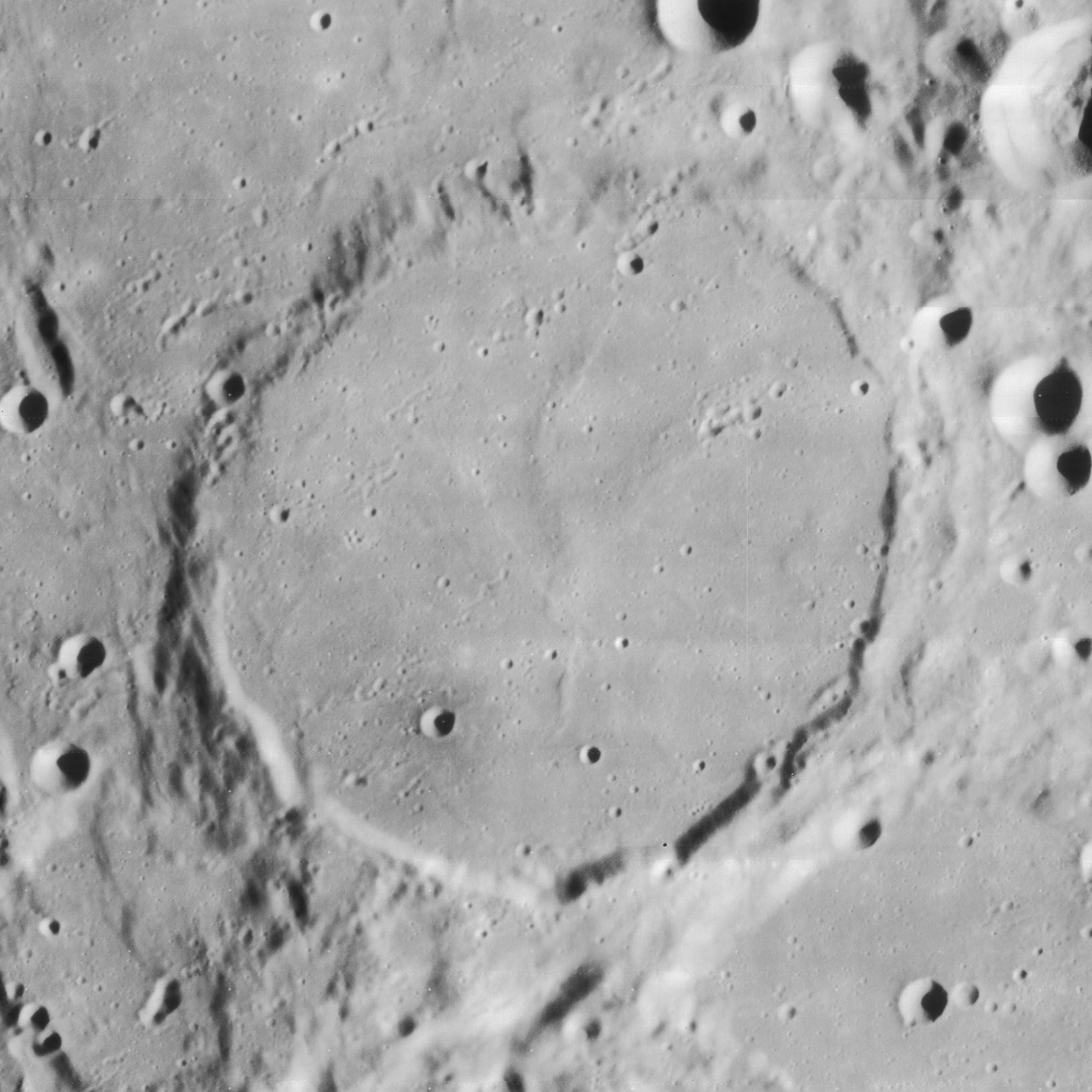 Crater Wargentin on the Moon.